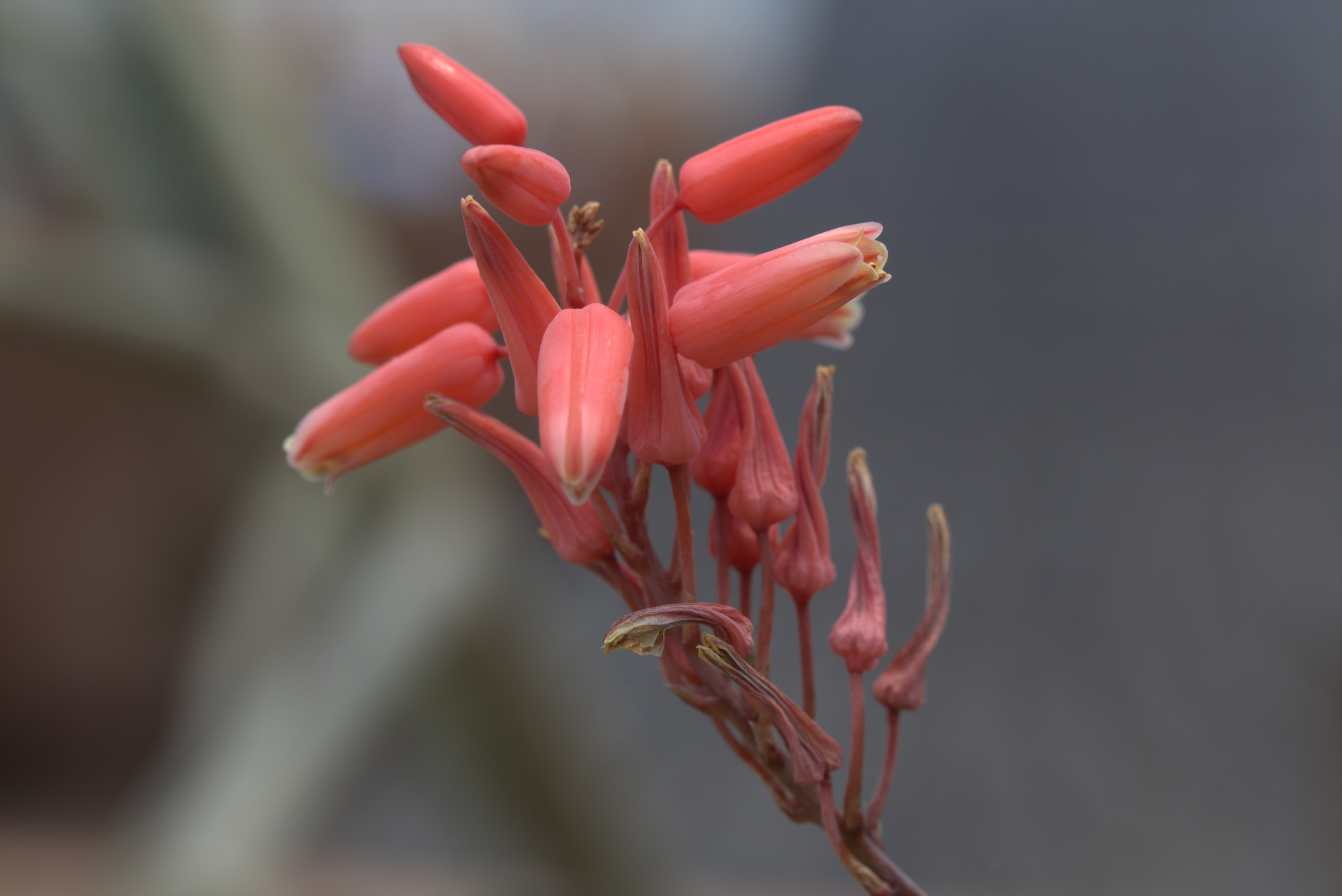 Aloe descoingsii at Gothenburg Botanical Garden in 2015. Plant id: 1992-2570 p G -- H-son B